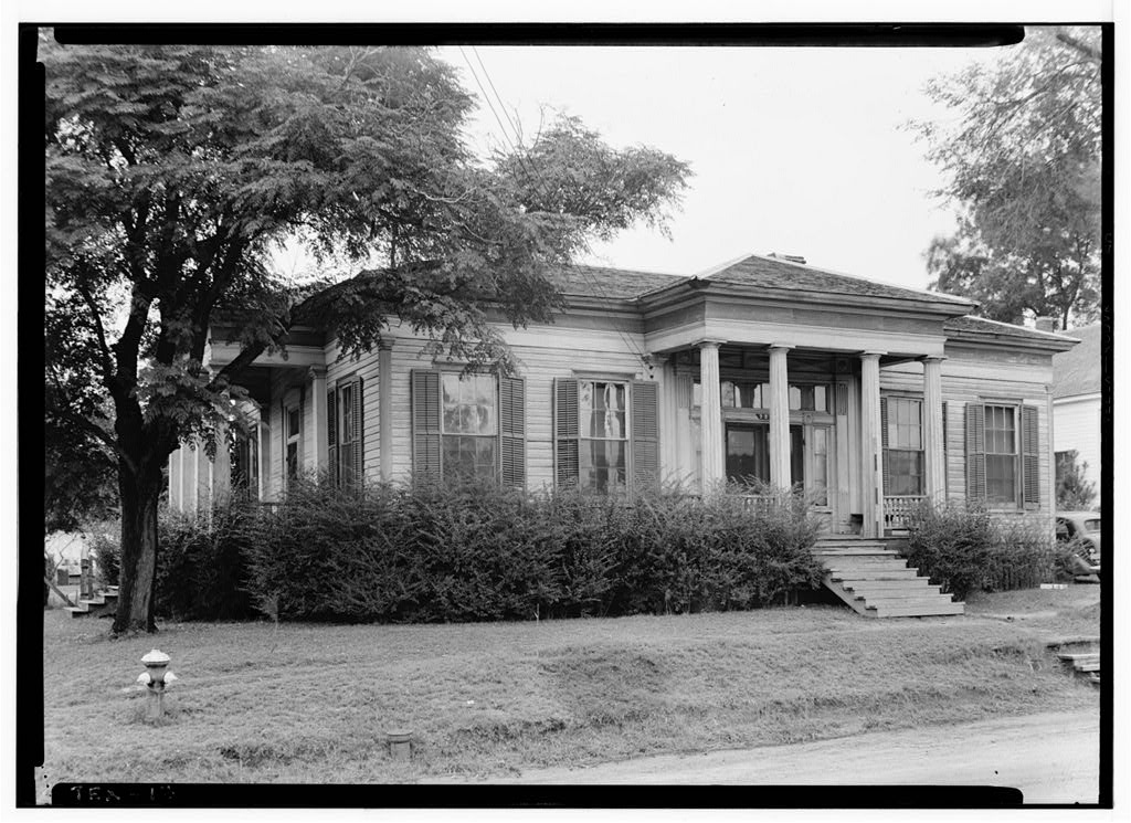 Presbyterian Manse, Jefferson, Marion County, Texas. Listed on the national Register of Historic Places. Historic American Buildings Survey—HABS image.